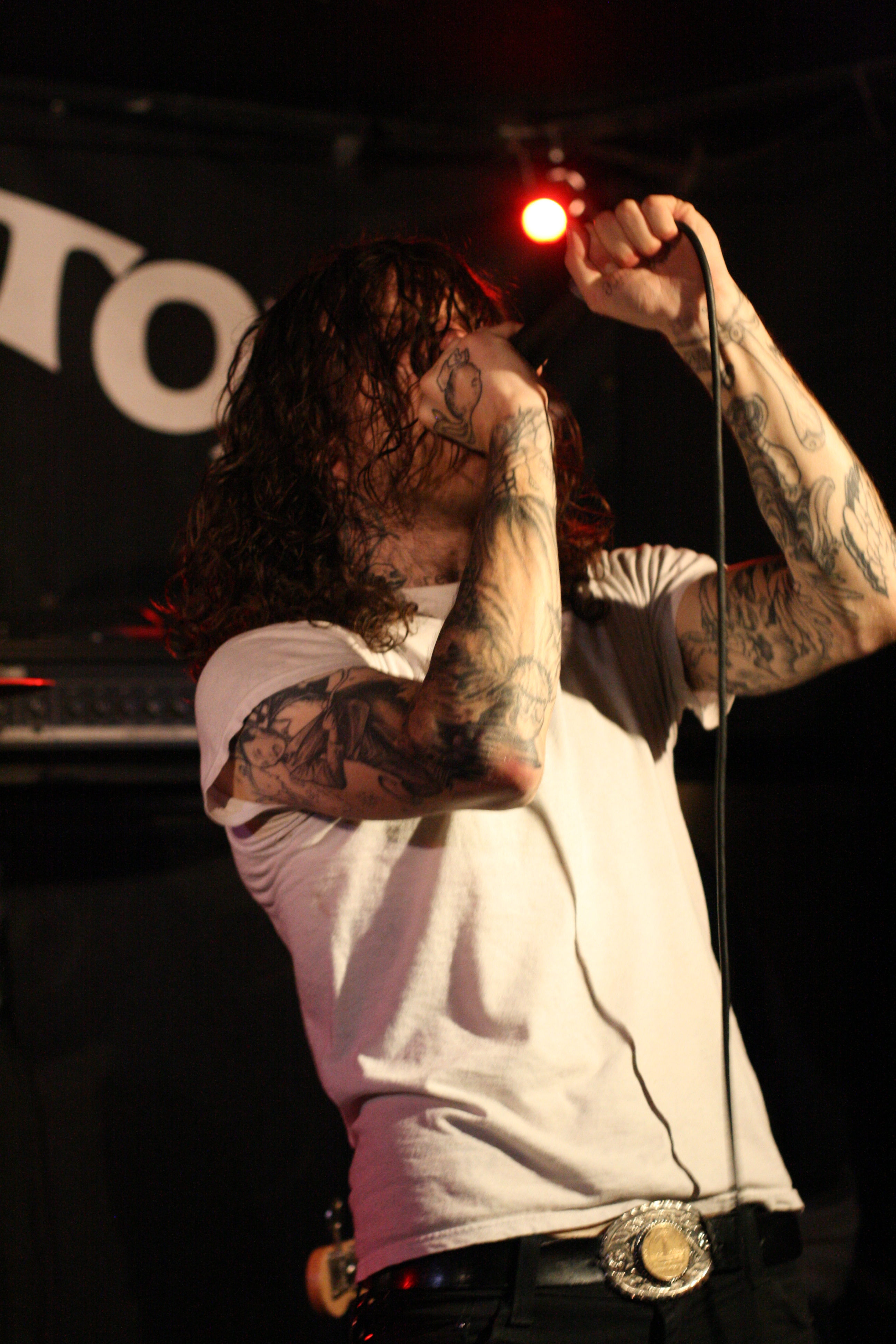 Ryan McKenney, vocalist of Trap Them, live in Brooklyn.